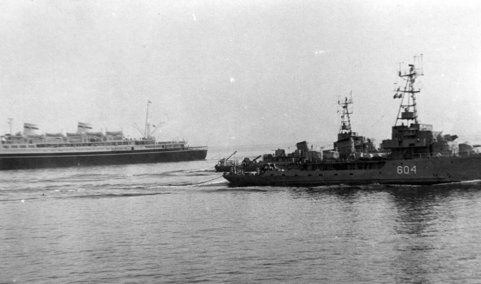 Polish Project 254M class minesweeper "Dzik" and the Polish liner M/S "Batory" after 1960.